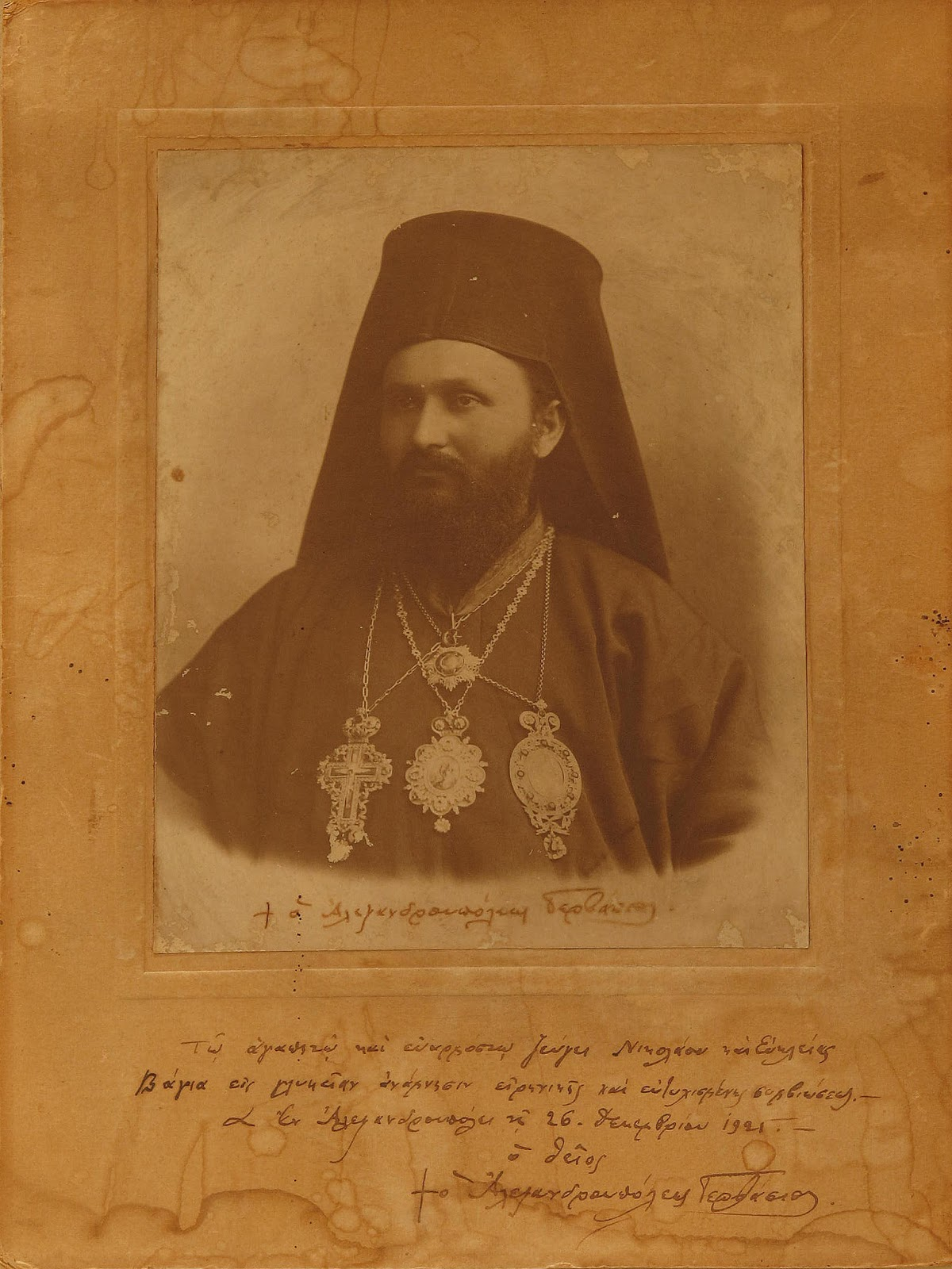 Gervasius Sarasitis